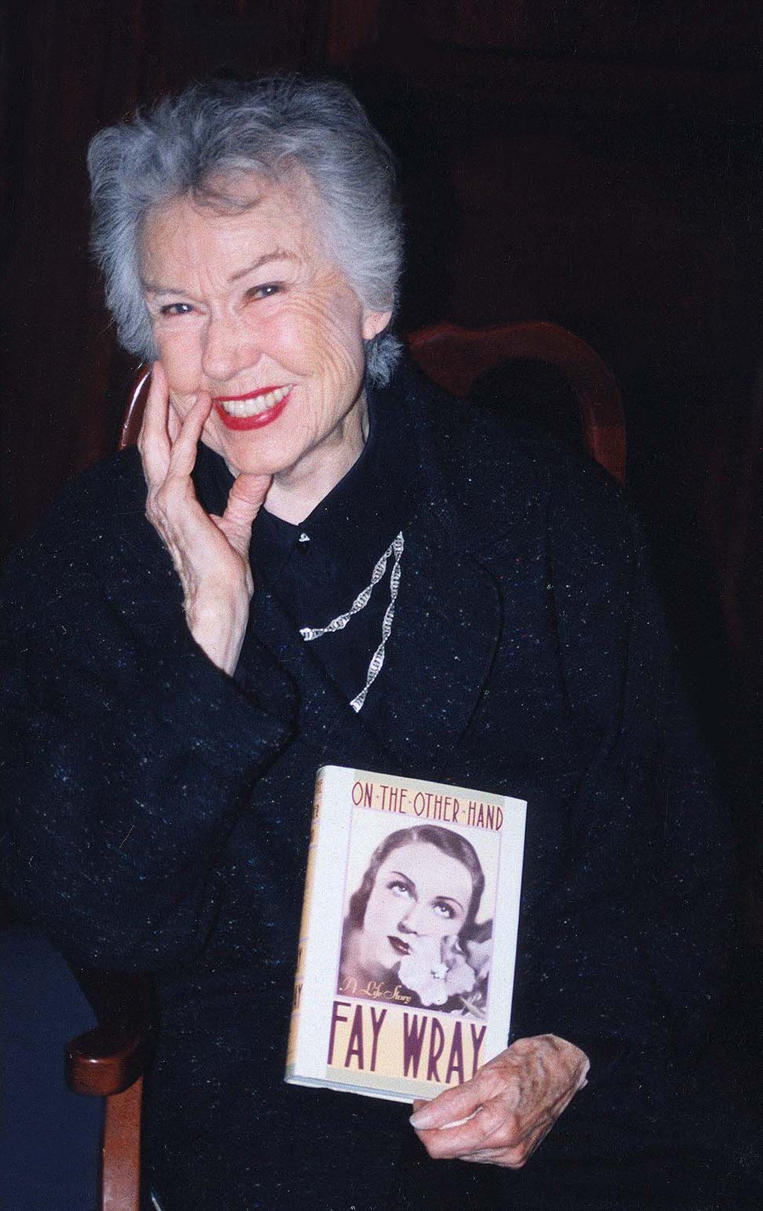 © copyright John Mathew Smith 2001